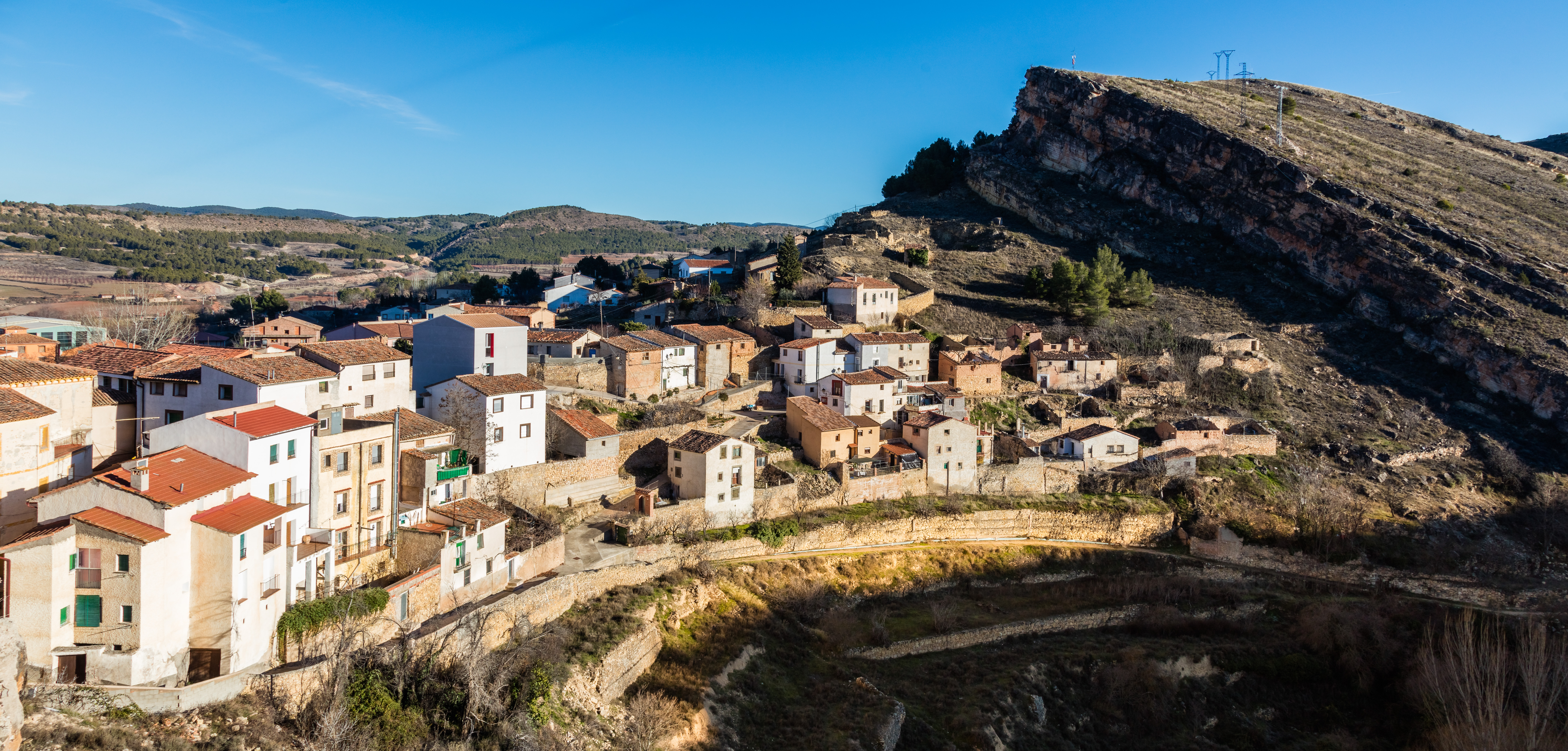 Nuévalos, Zaragoza, Spain